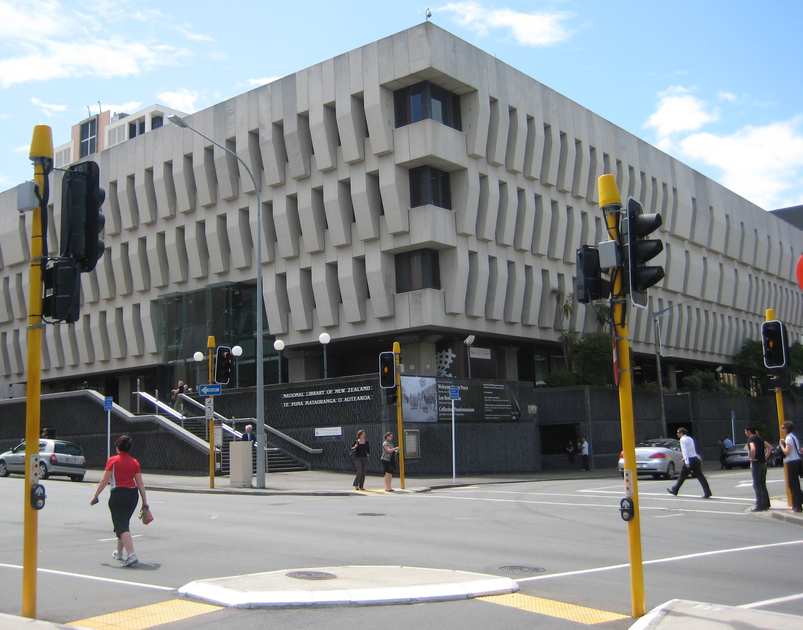 National Library of New Zealand